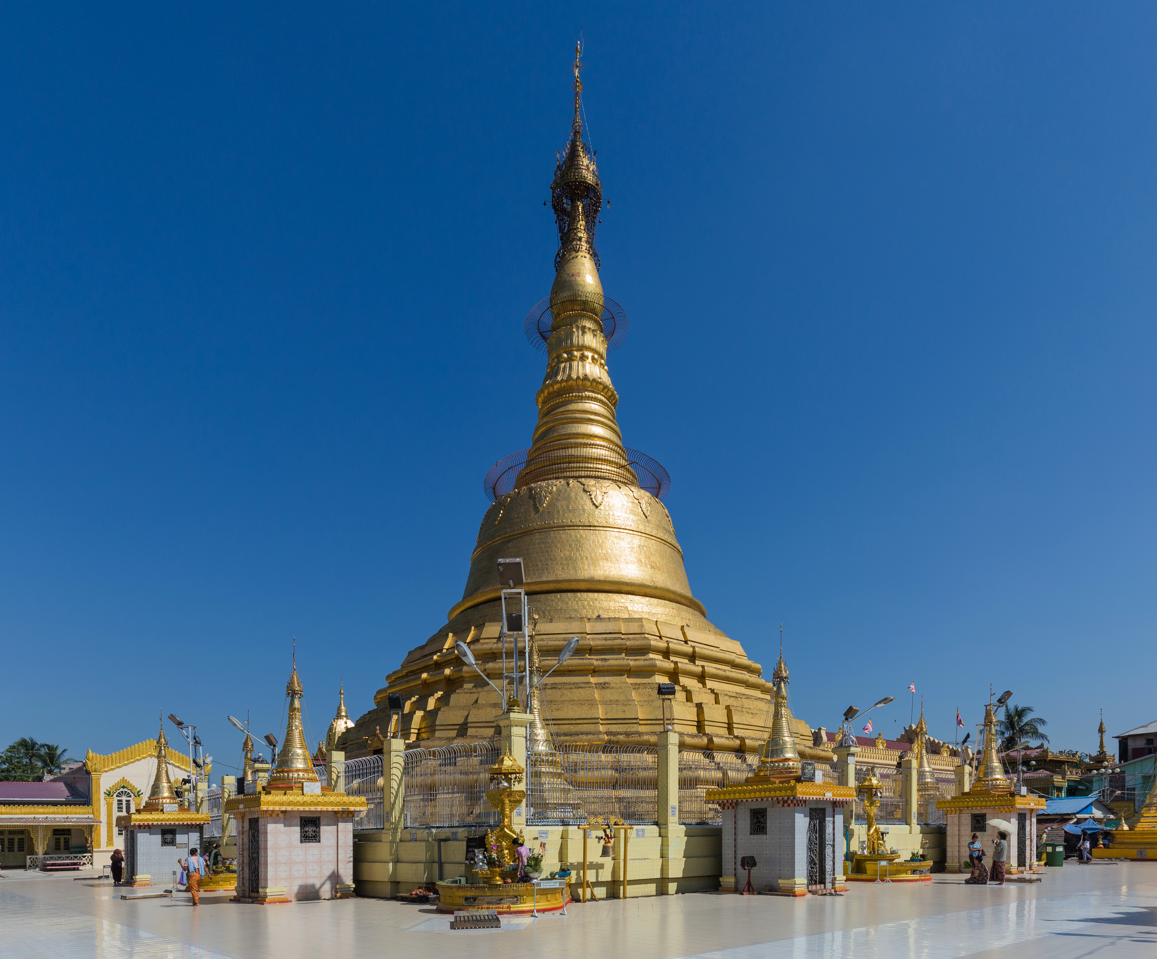 Stupa. Botataung Pagoda. Yangon, Myanmar.